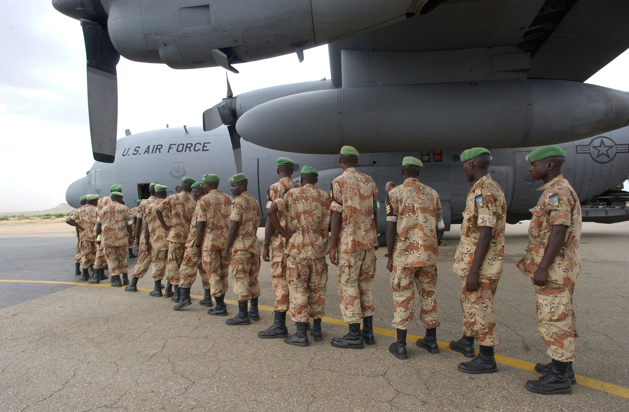 Rwandan peacekeepers prepare to board a U.S. Air Force C-130 Hercules aircraft in Sudan after a stop in Abeche, Chad, on Oct. 4, 2005. The peacekeepers are departing the region and returning to Rwanda after a six-month deployment supporting the African Union Mission. DoD photo by Master Sgt. David D. Underwood, Jr., U.S. Air Force. (Released)